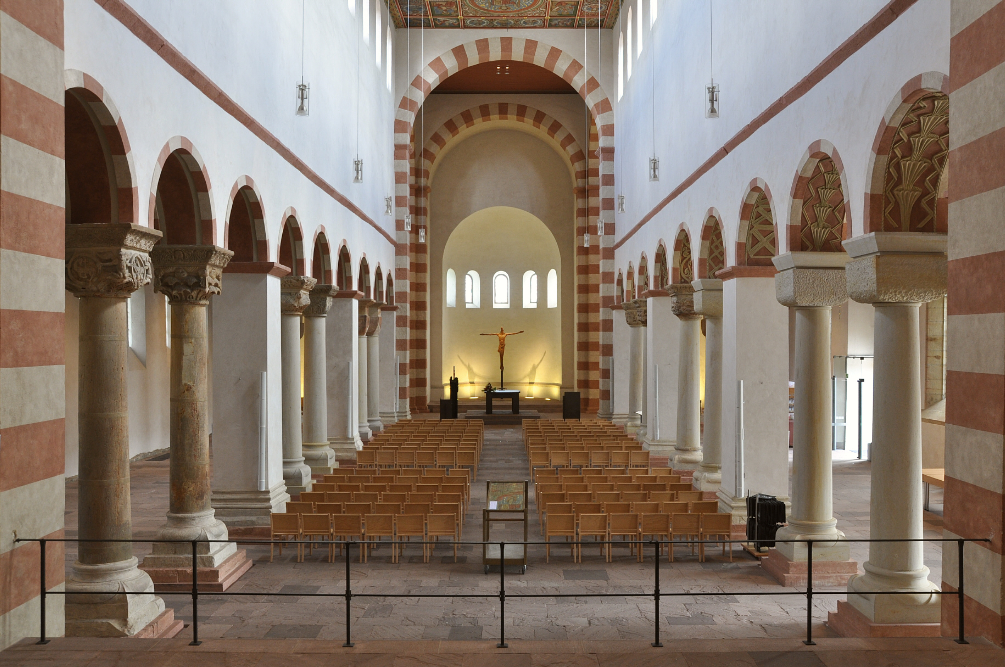 View through the nave to the eastern apse